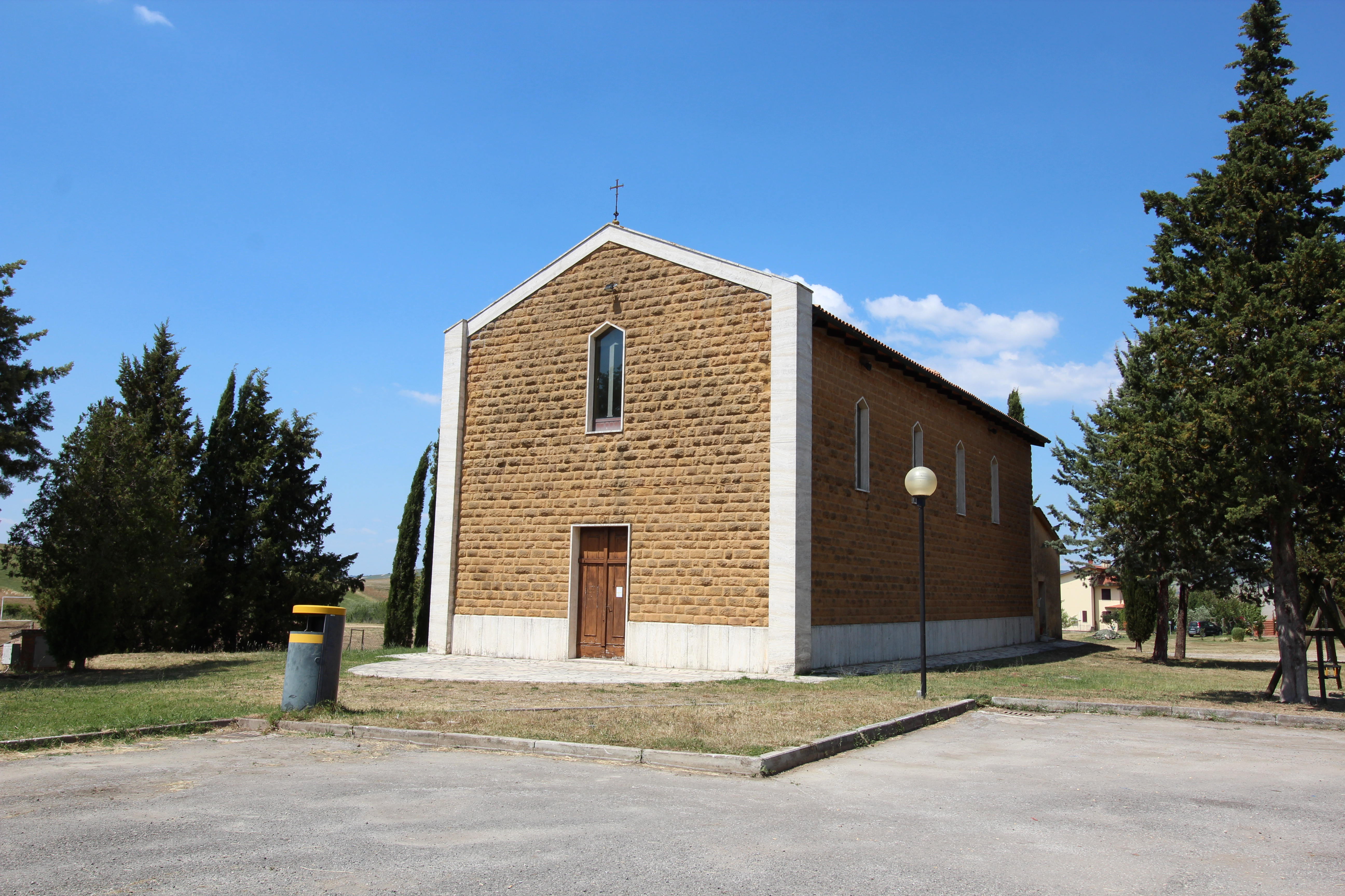 Church Santa Maria dei Campi, Gallina, hamlet of Castiglione d'Orcia, Province of Siena, Tuscany, Italy